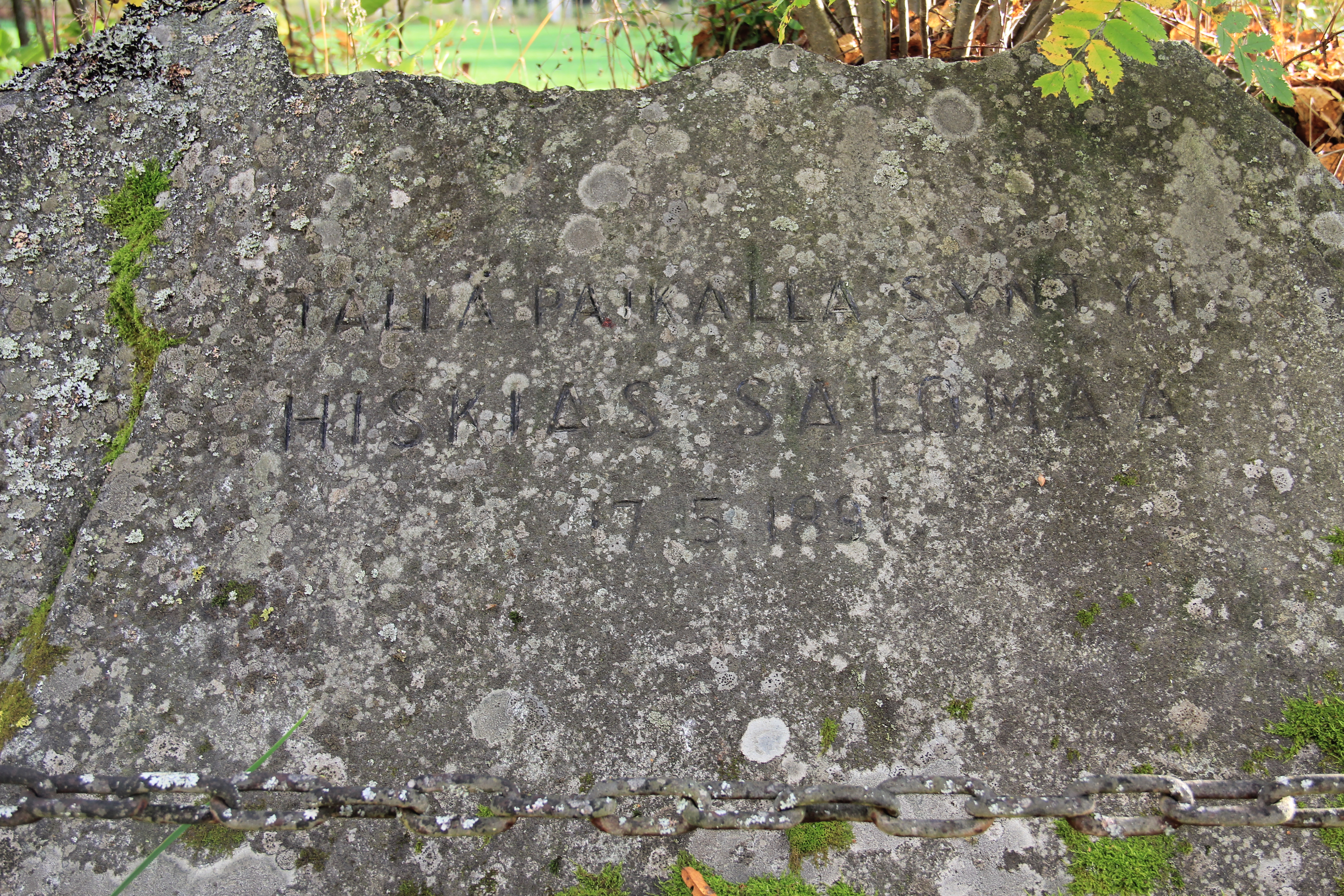 Hiski Salomaa birthplace memorial stone, Kangasniemi, Finland. - Memorial stone unveiled in 1979.